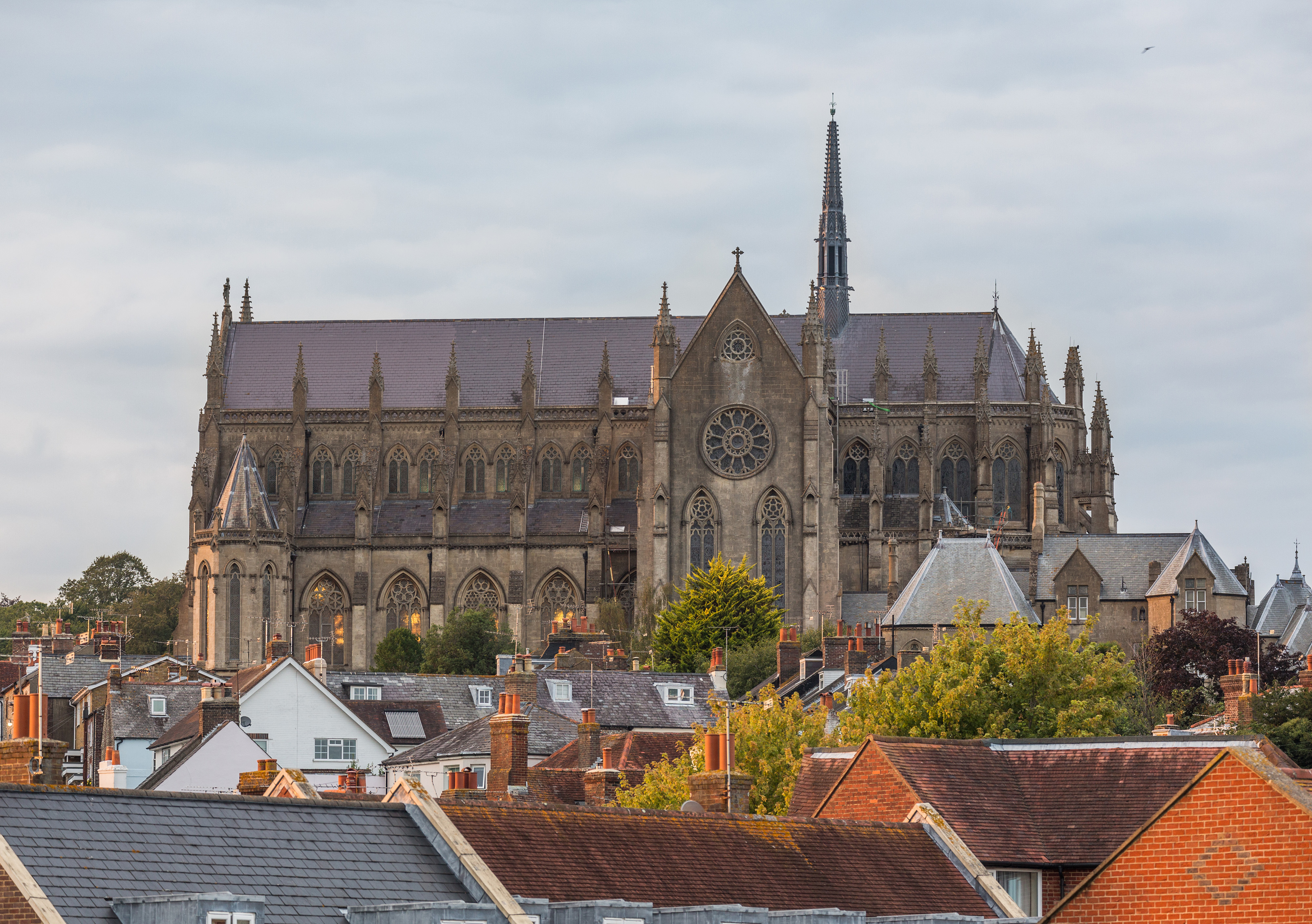 The exterior of Arundel Cathedral, West Sussex, England.